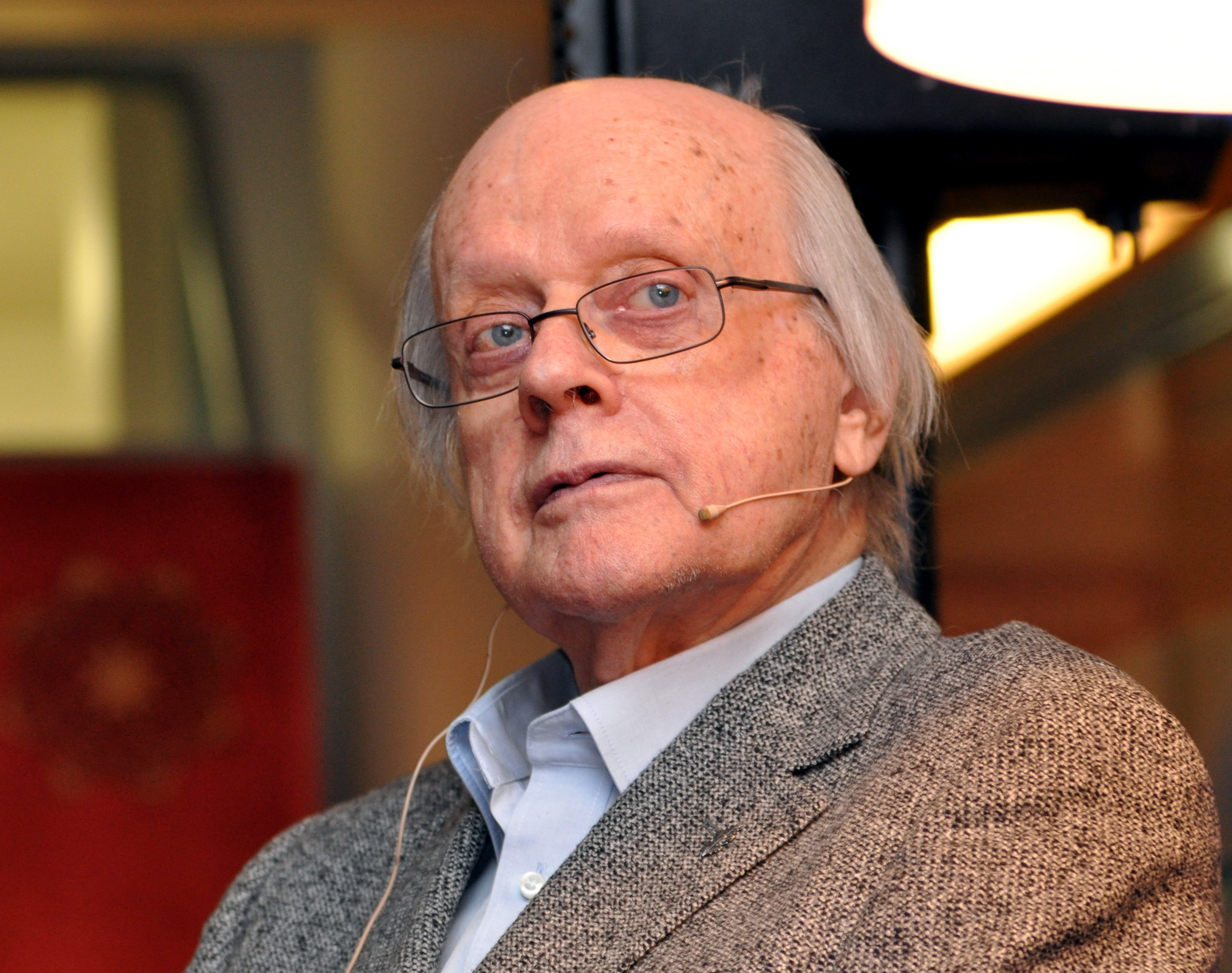 Arne Nevanlinna, Finnish writer, Stoa, Helsinki, March 2009.